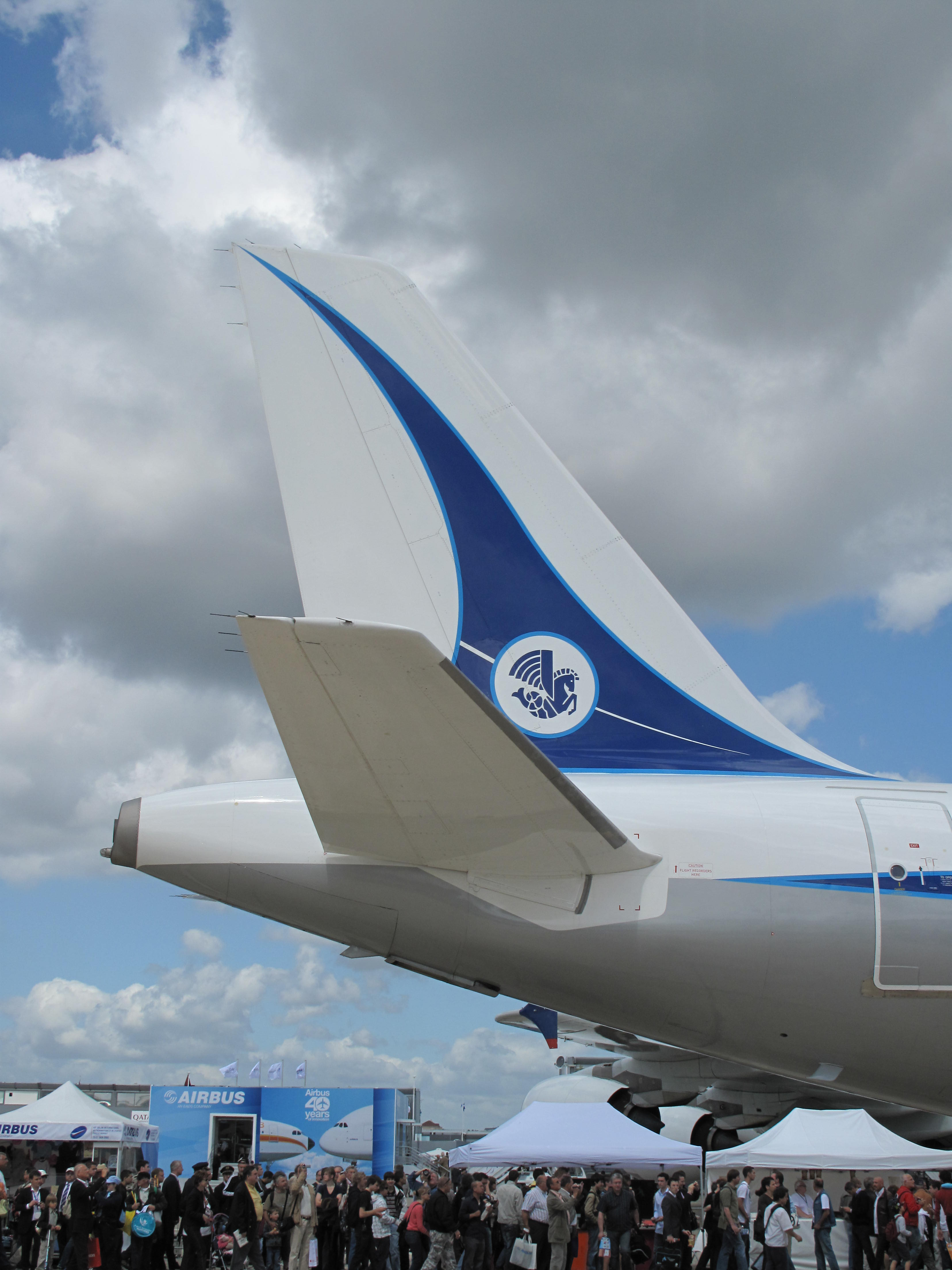 Tail of the Airbus A320 of Air France F-GFKJ at the Paris Air Show 2009